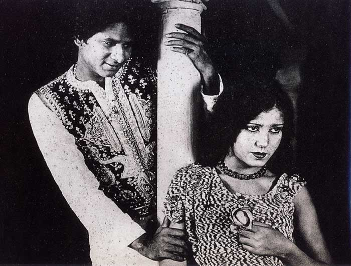 Scene from Bollywood film, "Alam Ara"(1931)